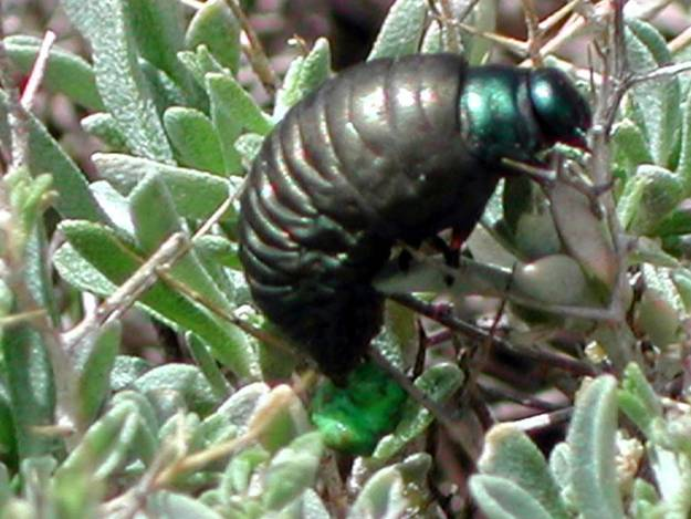 Timarcha gravis Rosenbauer, 1856 (syn.: Timarcha lugens) - (no original description)